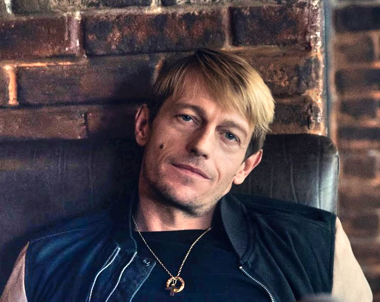 Leo Gregory